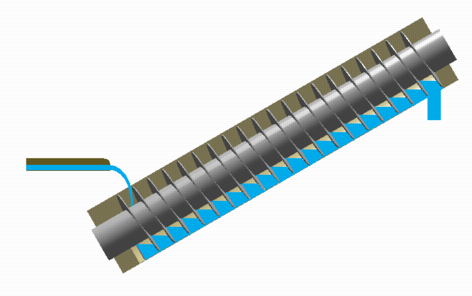 Schematic of an Archimedes screw pump. Author : R. Castelnuovo (myself) 2005 09 16